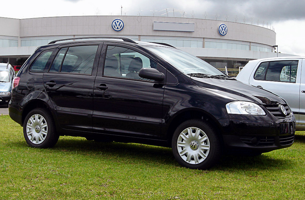 Volkswagen SpaceFox